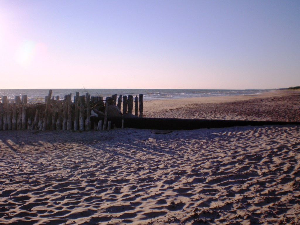 The pipe of Butinge terminal